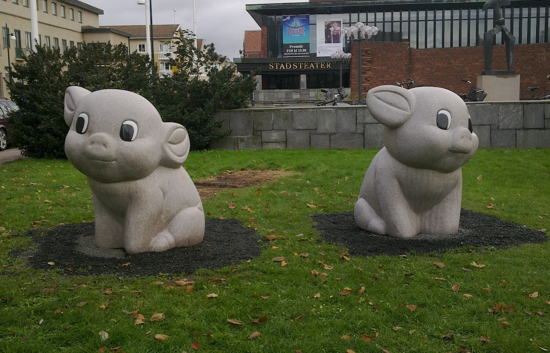 Sculpture by Marianne Lindberg De Geer